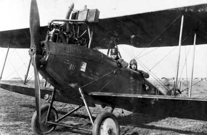 The pilot, Leutnant Frankewitz, and an unidentified observer of a German squadron, probably Bayrische Flieger Abteilung 287 (Bavarian Flying Section 287), sitting in the cockpit and gunner's station of a DFW C.V aircraft.